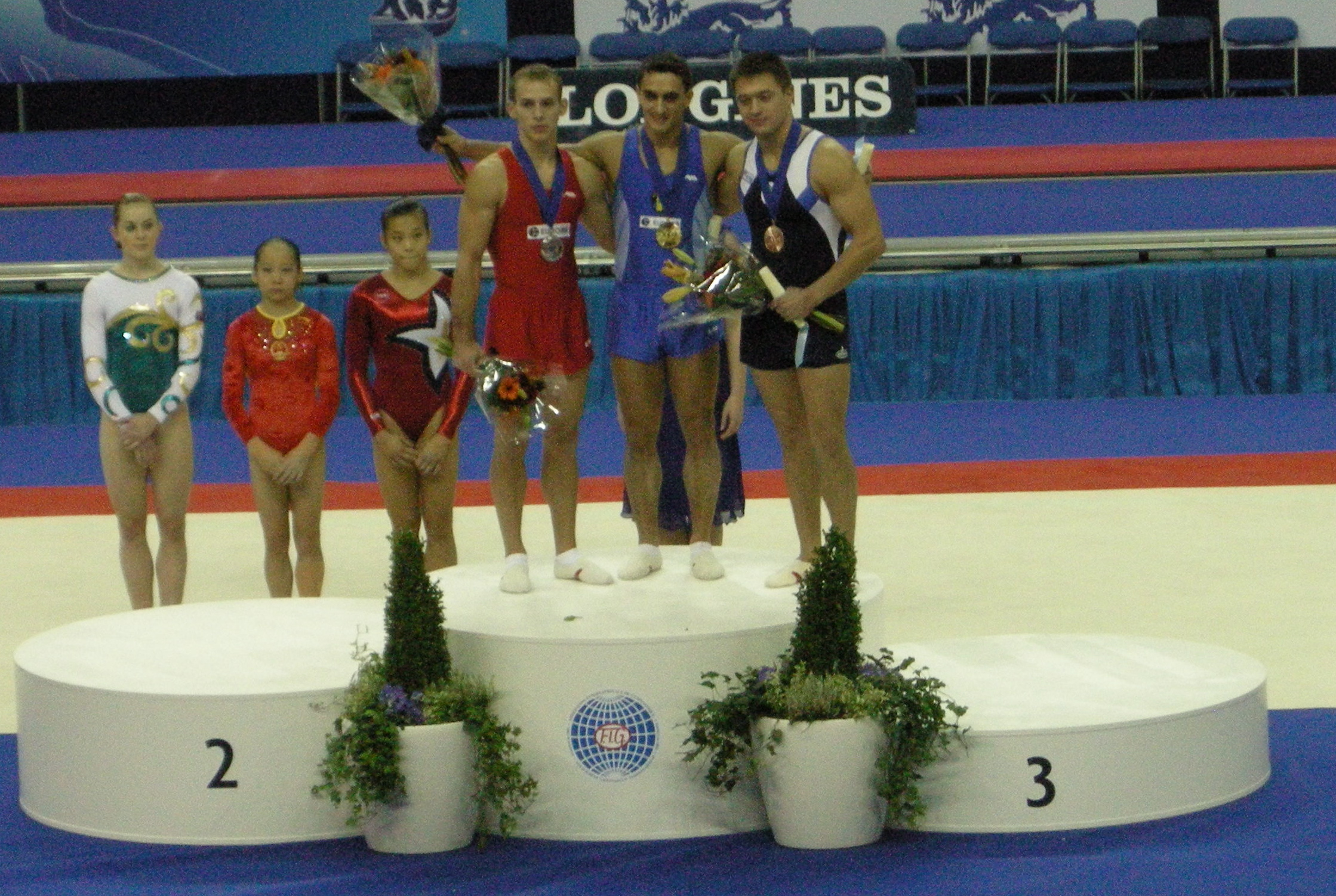 Podium vault at 2009 World Artistic Gymnastics Championships in London. On the podium Marian Dragulescu, Flavius Koczi and Anton Golotsutskov